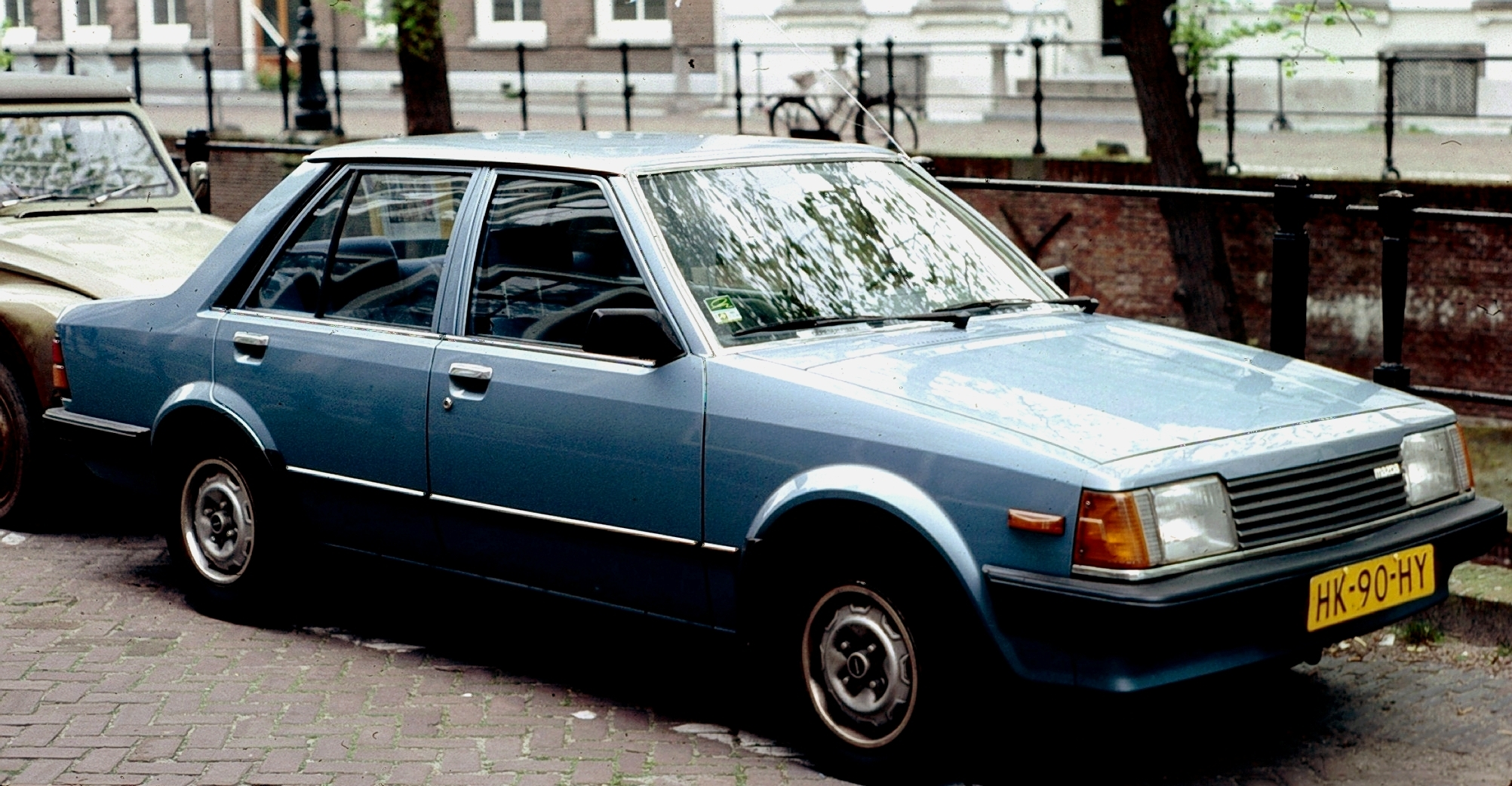 Mazda 323 Notchback in NL